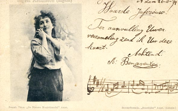 Sigrid Arnoldson